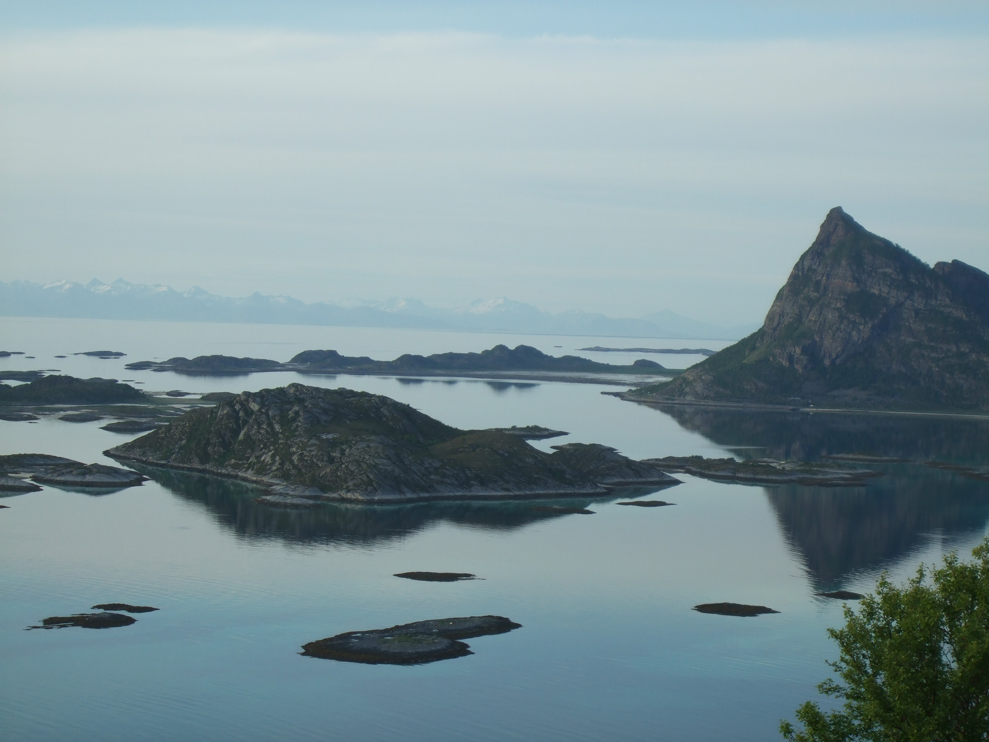 Center of image the small islands Grådusan where the German fortress Batterie Dietl was located during WW2